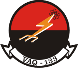 Insignia of the U.S. Navy Tactical Electronic Warfare Squadron 133 (VAQ-133) "Wizards".